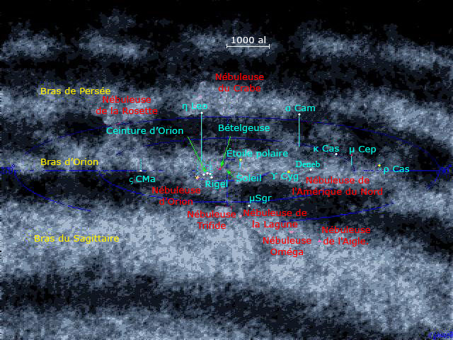 Map of the Orion Arm of the Milky Way